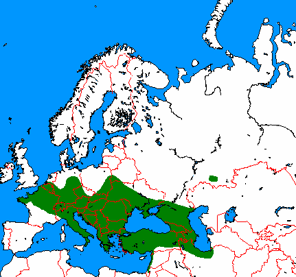 Bicolored Shrew (Crocidura leucodon), range map, depending on the range map at IUCN red list